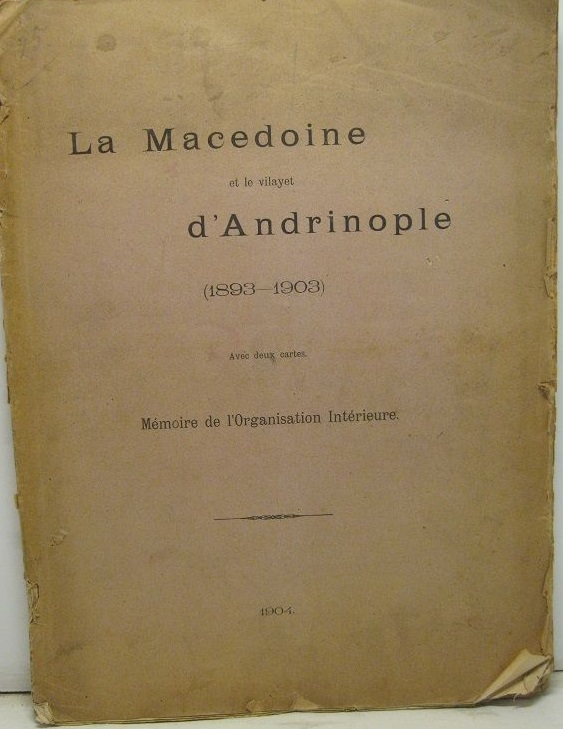 Memoire of IMARO